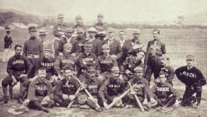 Caracas Lions in 1895